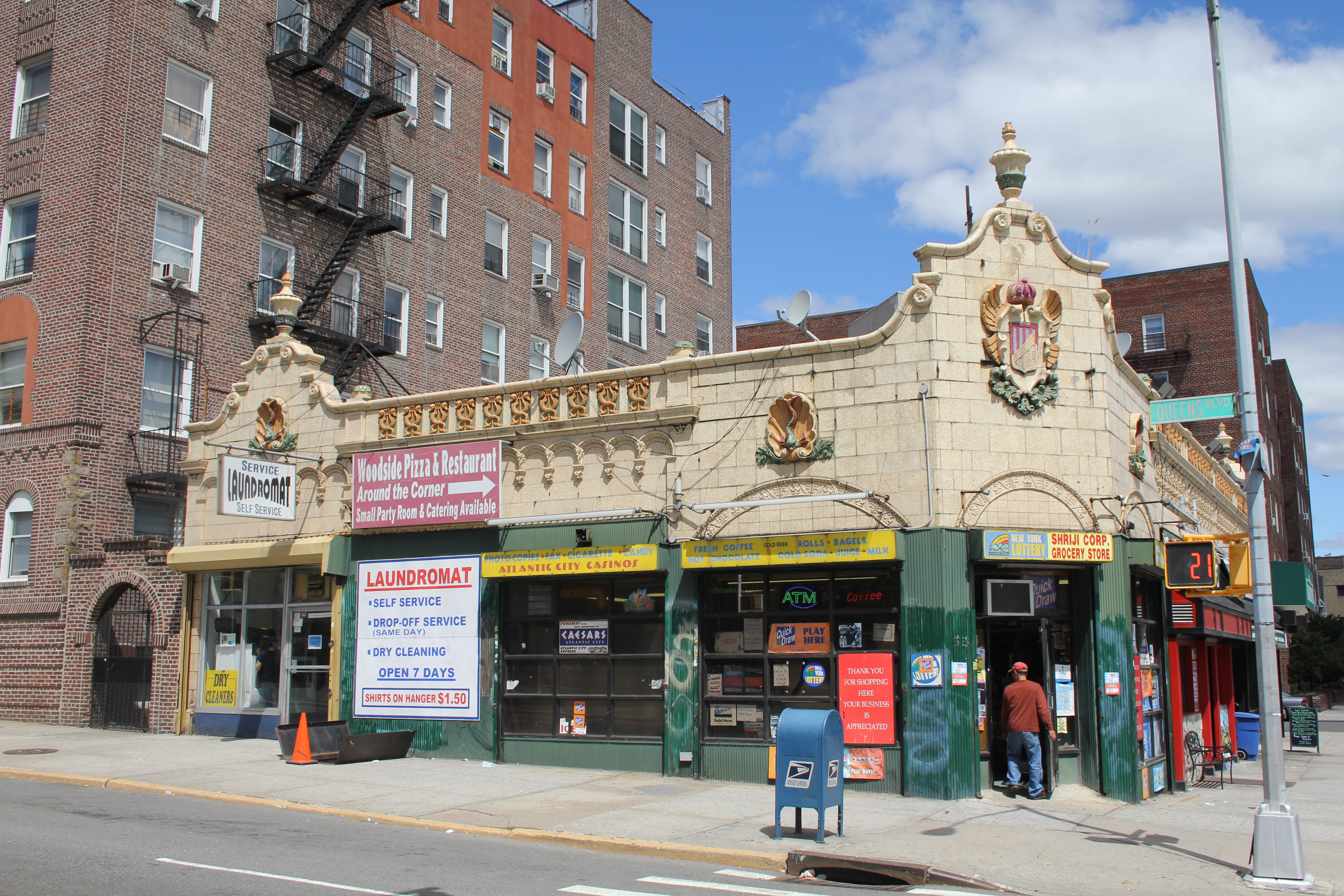 Former Childs restaurant in Woodside, Queens at 5937 Queens Blvd.